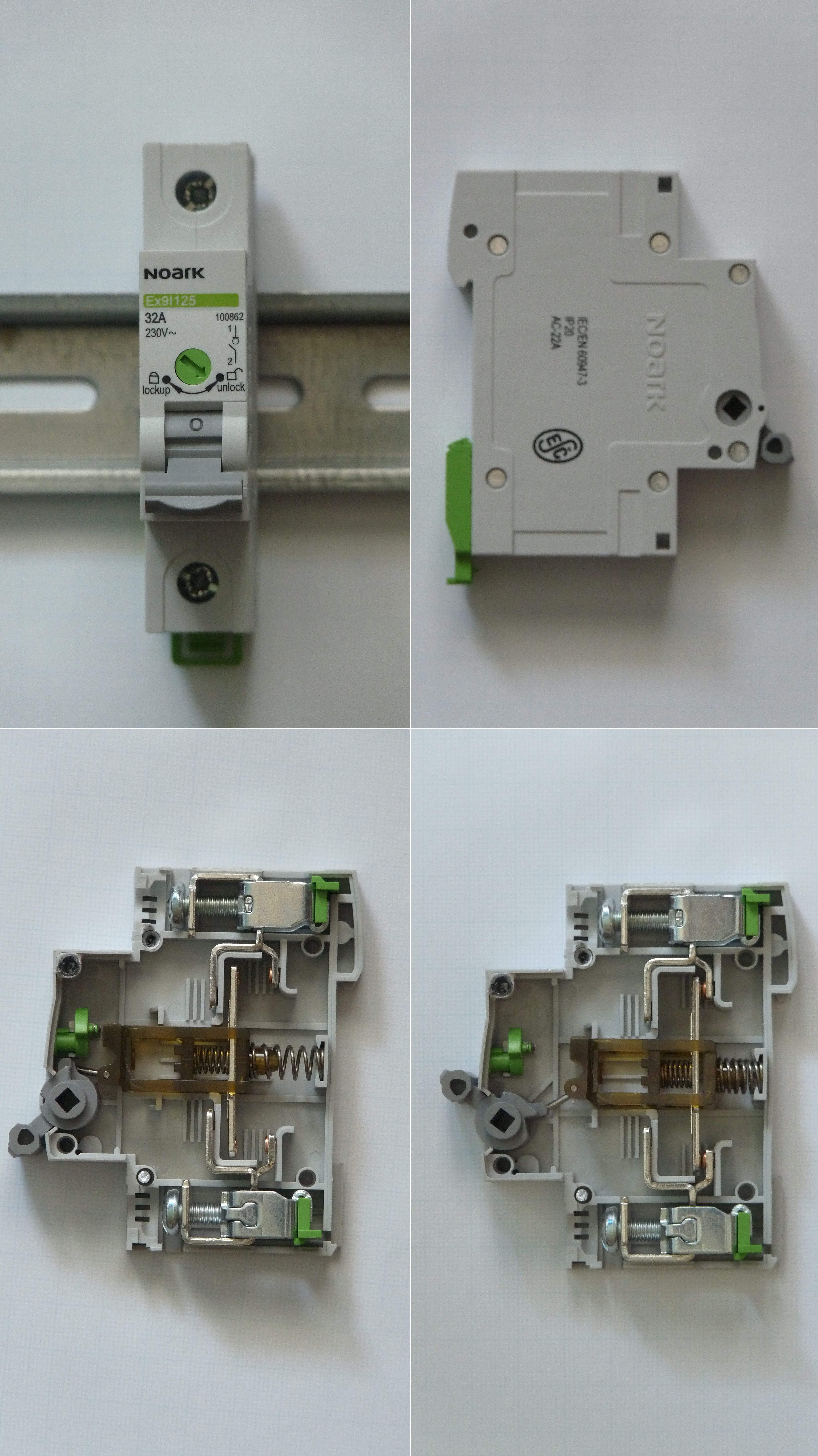 1-pole load switch for DIN-rail